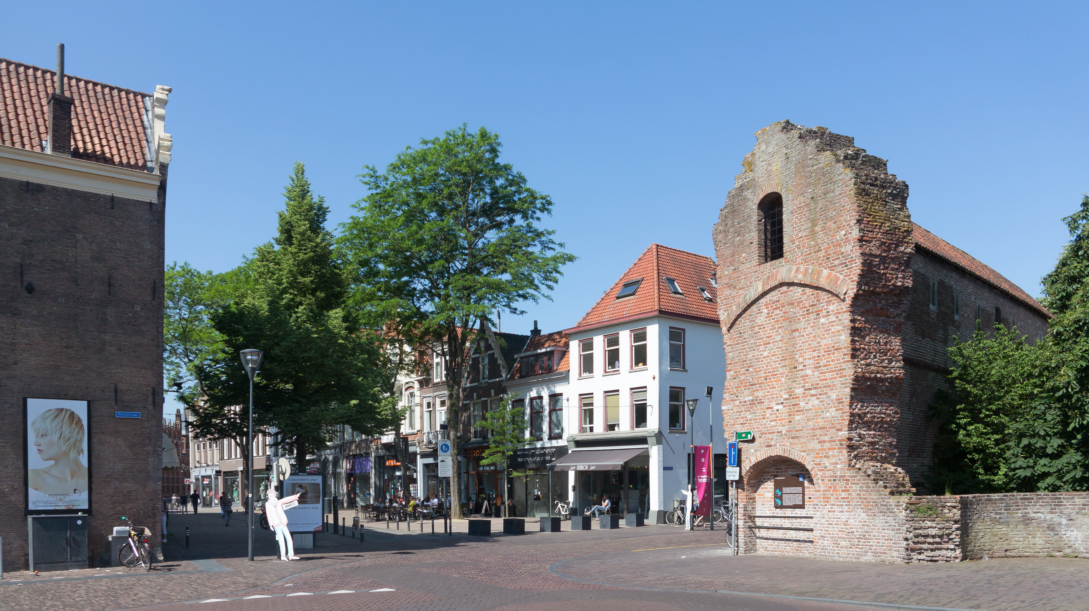 Zwolle, town gate - het Diezerpoortenbolwerk